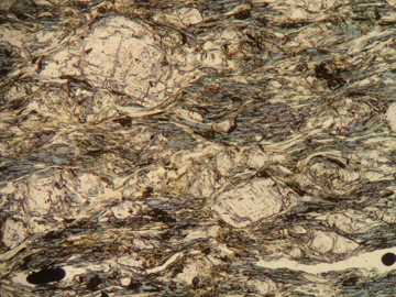 Photograph by D.L. Whitney; photo not available elsewhere online. Photomicrograph of blueschist in plane polarized light.